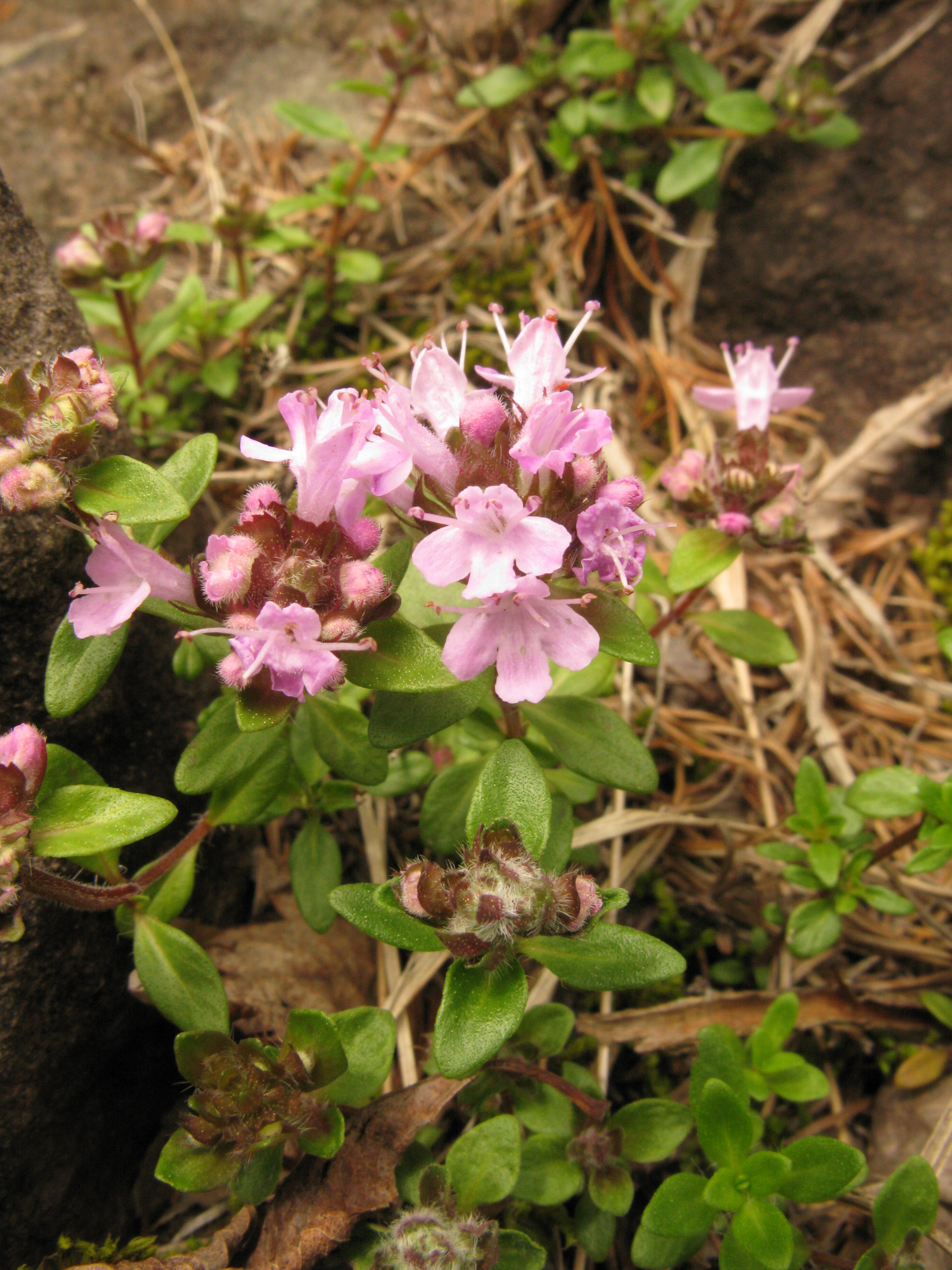 Thymus quinquecostatus, Mt. Bandaisan, Fukushima pref., Japan